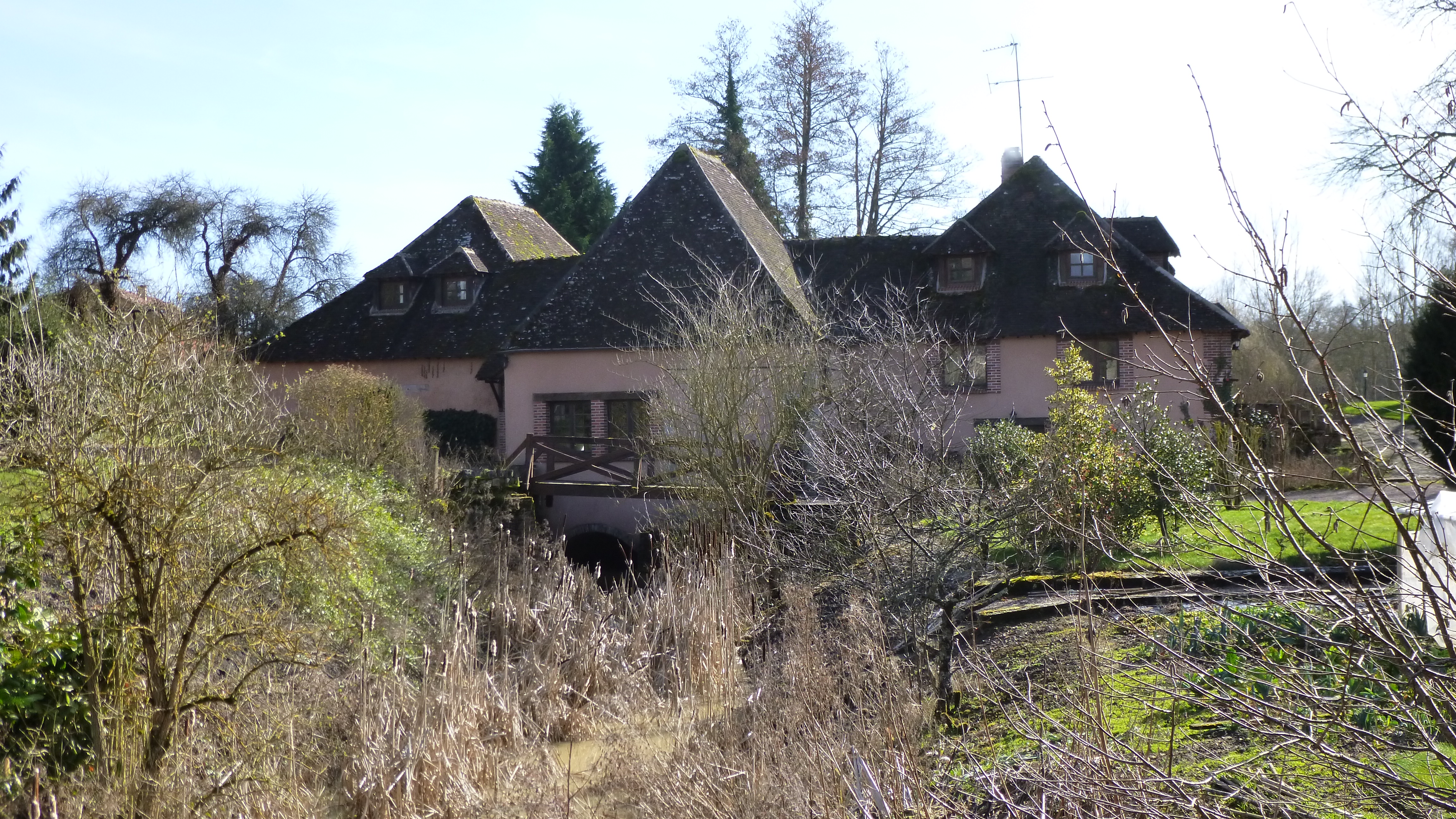 Tannerre-en-Puisaye, Yonne, Burgundy, France. Moulin de la Forge, near the D7 road towards Champignelles. The mill's canal pound, encumbered with vegetal growth.